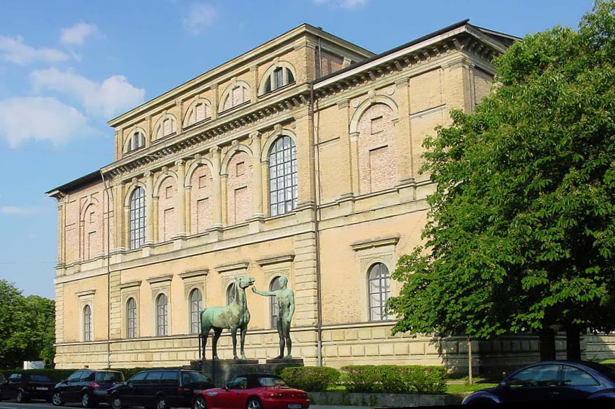 Alte Pinakothek, Munich, Germany